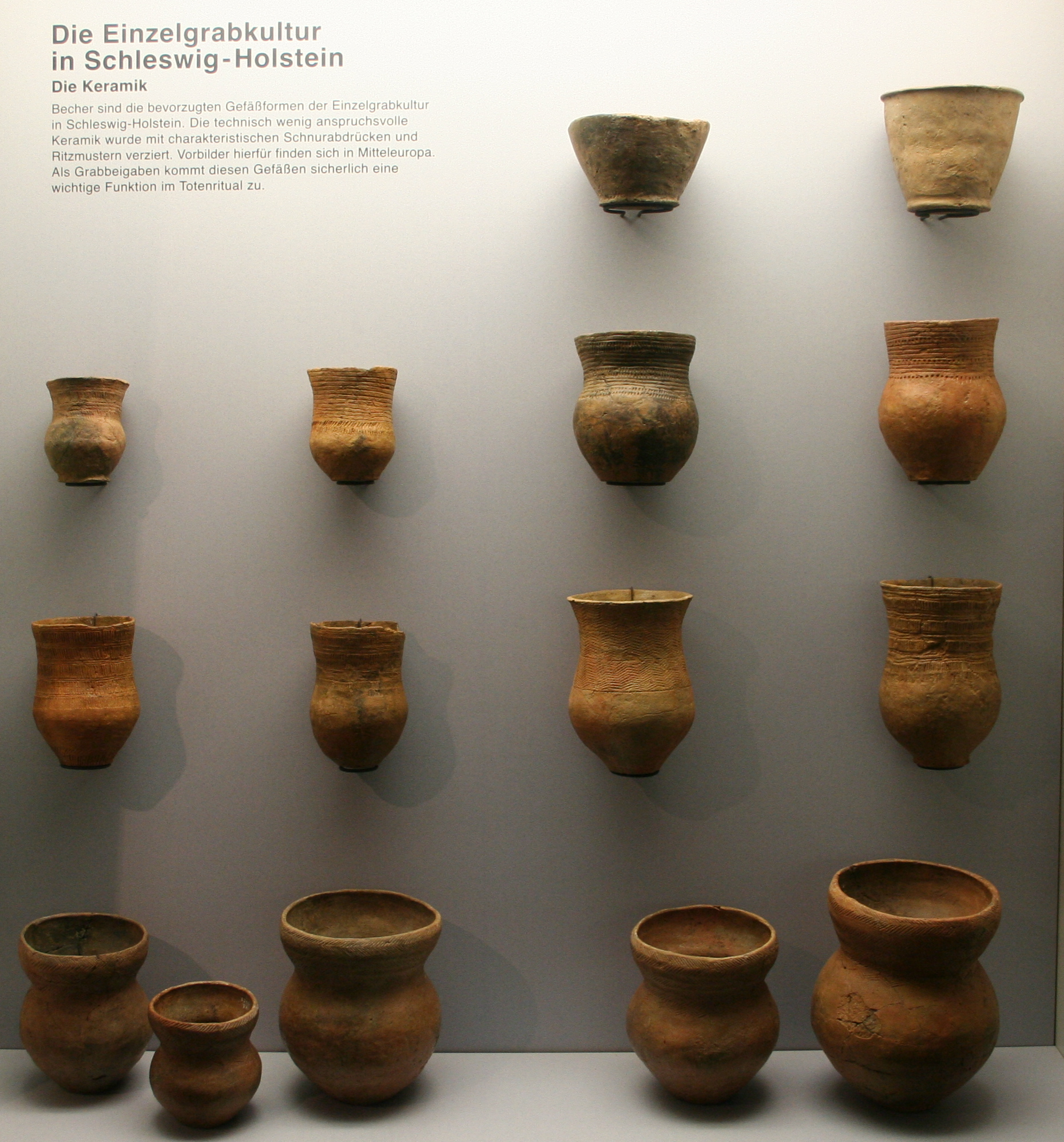 Archaeological state museum Schleswig-Holstein, Gottorf Castle